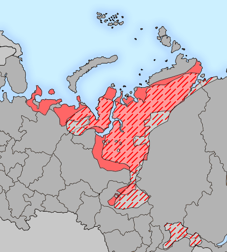 The map of distribution of Samoyedic languages (red) in the XVII century (approximate; hatching) and in the end of XX century (continuous background).